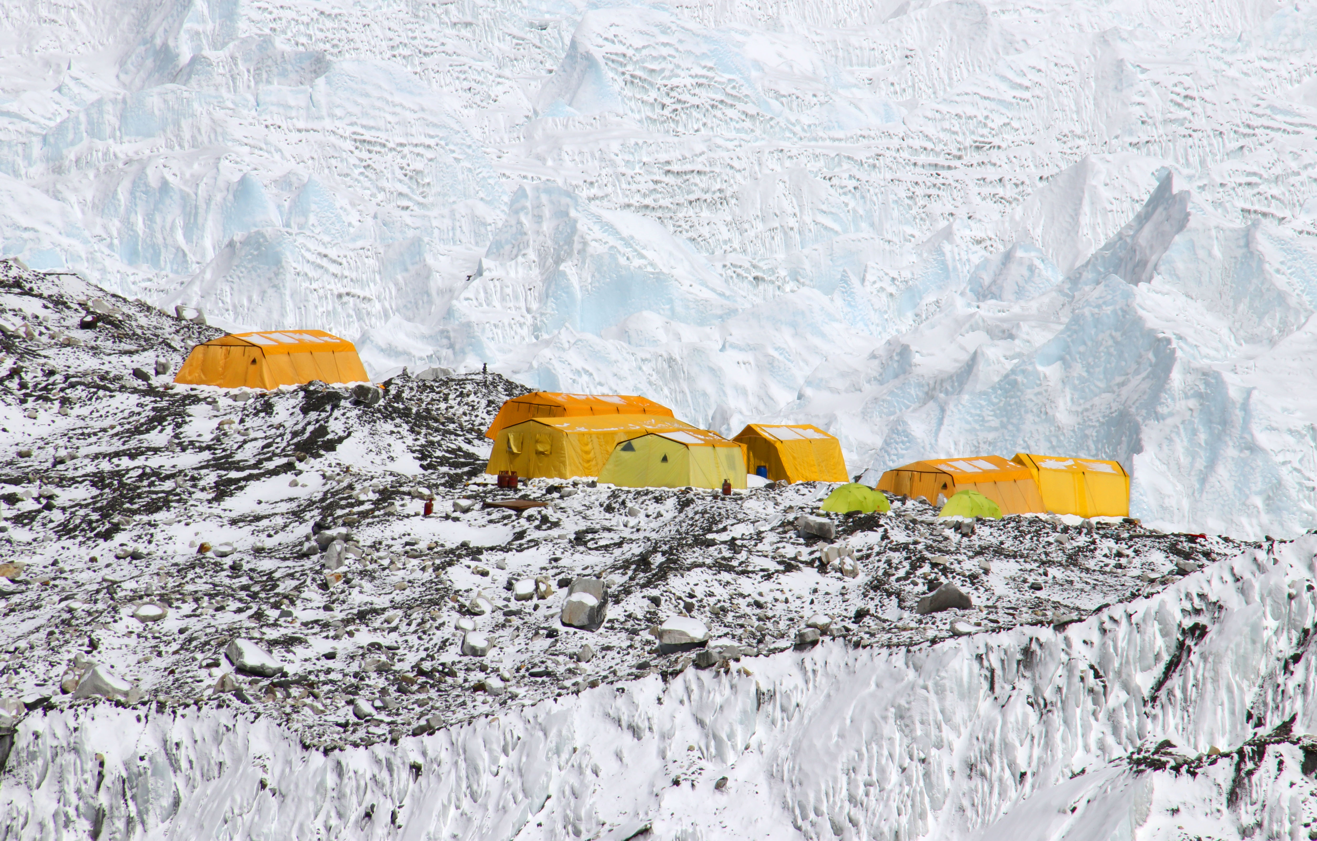 Gorak Shep. View on Mount Everest Base Camp.